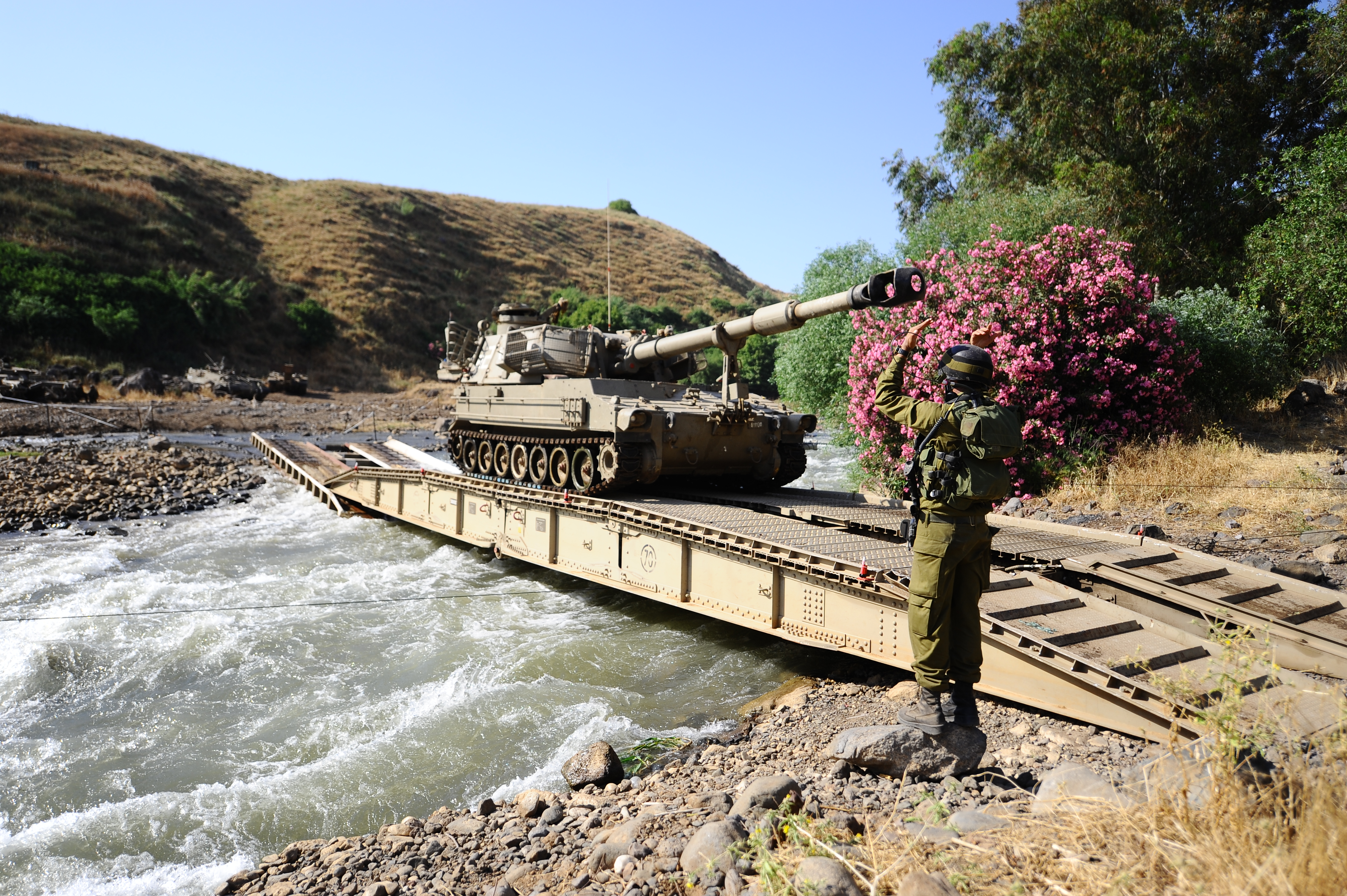 IDF ground forces practice a river crossing. The drill included soldiers from combat engineering, tanks, artillery and infantry units. Photo taken by Ori Shifrin, IDF Spokesperson's Unit Featured as IDF Photo of the Day on June 4, 2012 The Israel Defense Forces Facebook The Israel Defense Forces blog The Israel Defense Forces website The Israel Defense Forces Twitter